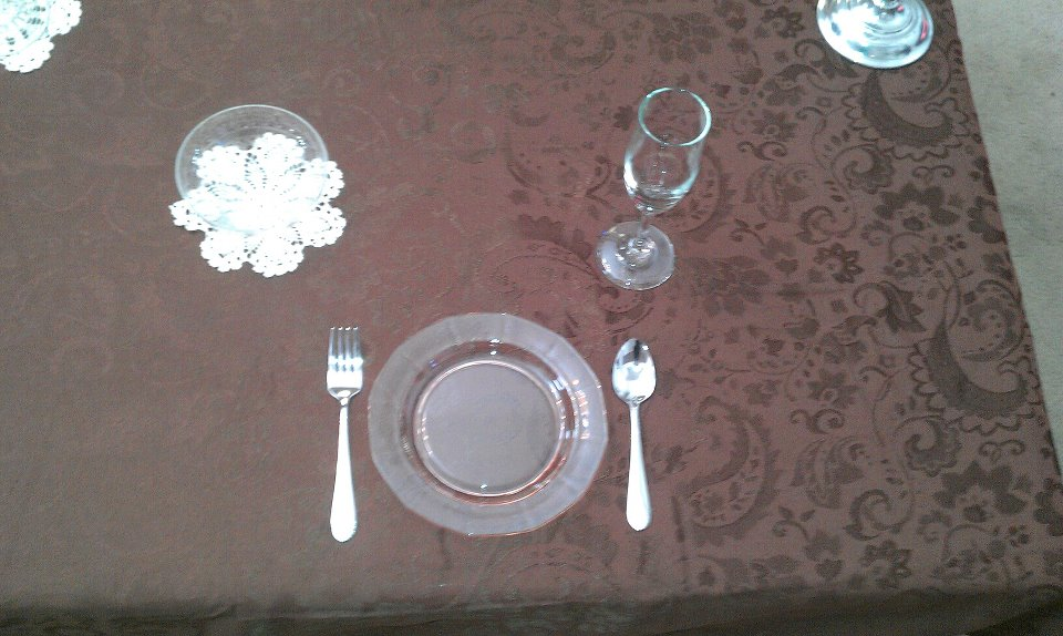 Served with champagne